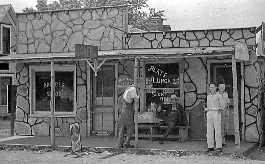 Butterfield, Missouri. Plate Lunch 25 Cents in 1939. "For 25 cents you got a full meal in those days. I wonder if this cafe still exists? The 2000 census shows 397 for Butterfield. I shot this with my Argus C2 on Plus film, developed in DK-20."